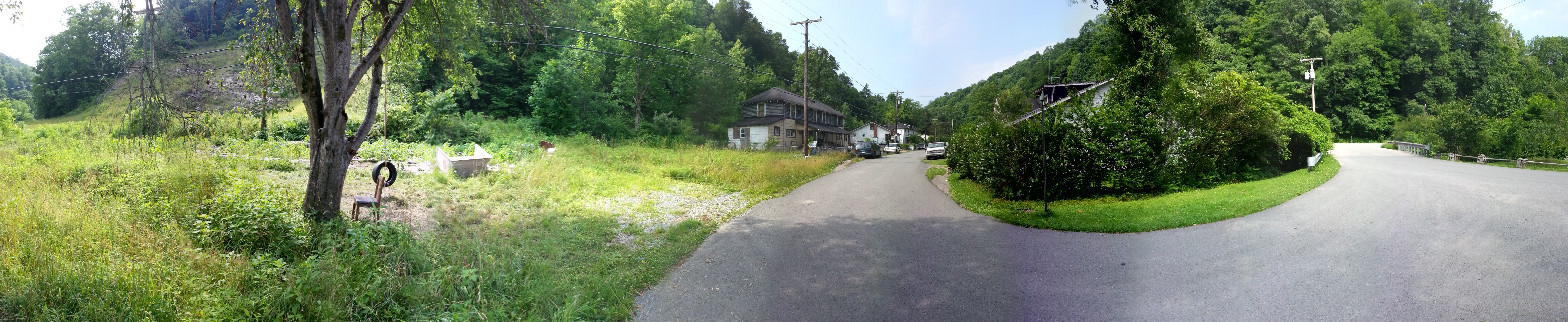 Sarah Ann, West Virginia.